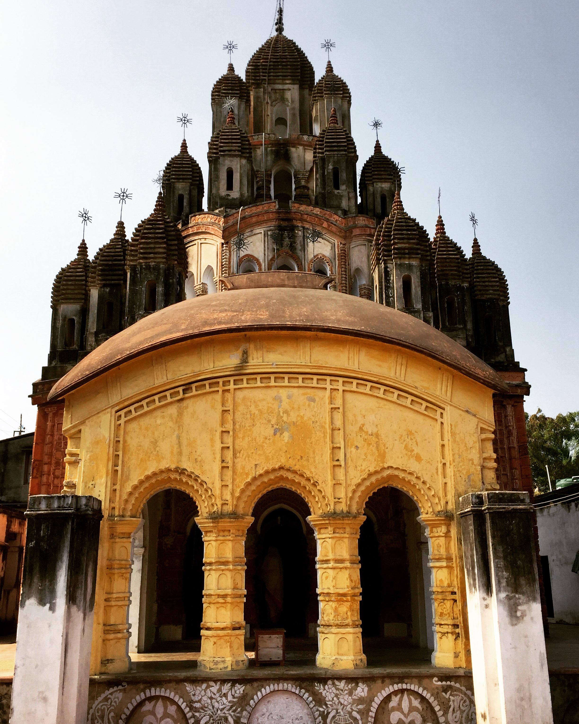 The Gopalbari Temple at Kalna in Barddhaman district of West Bengal.